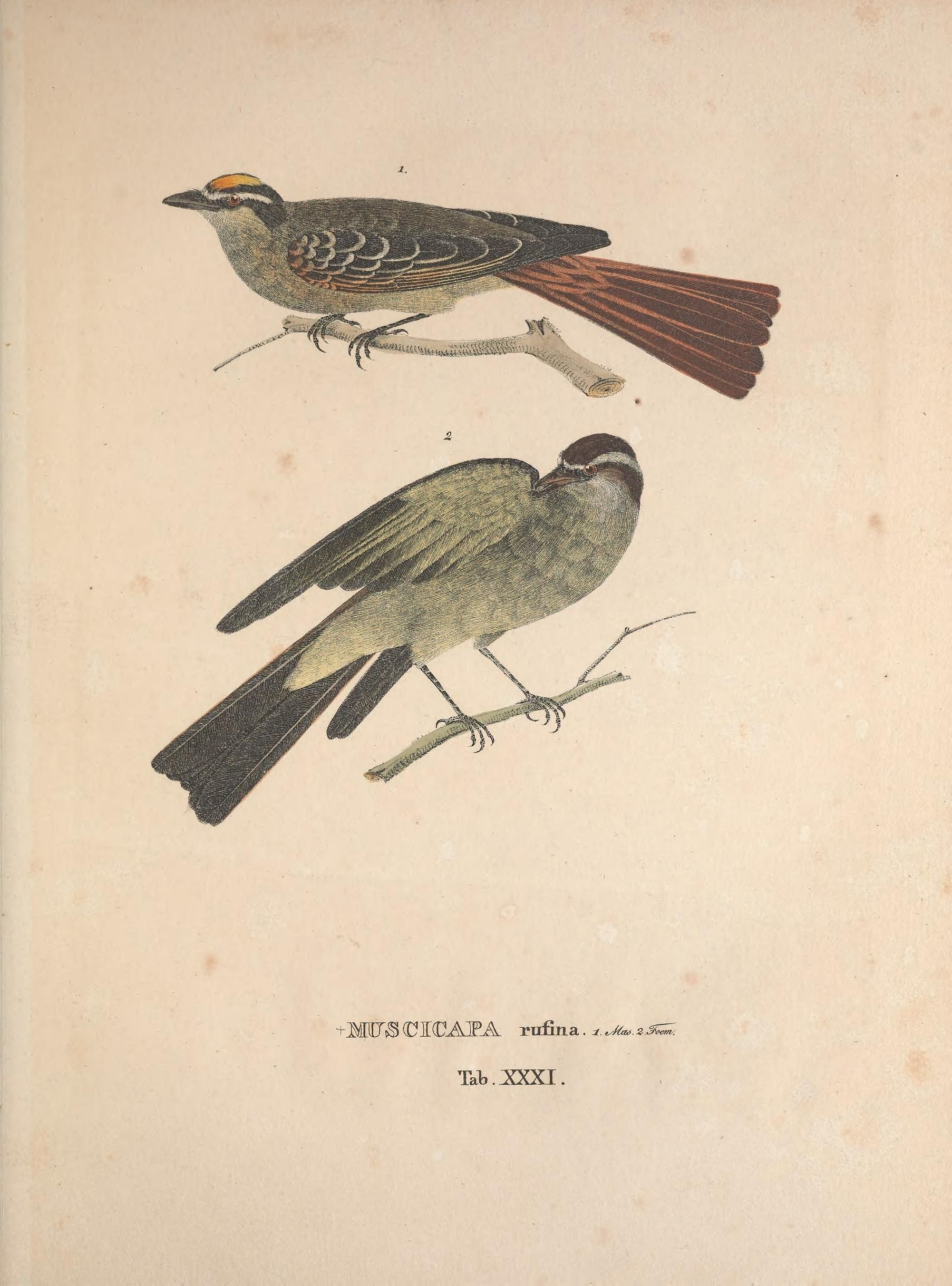 Avium species novae, quas in itinere per Brasiliam annis MDCCCXVII-MDCCCXX /. Monachii :Typis Franc. Seraph. Hübschmanni,1824-1825..